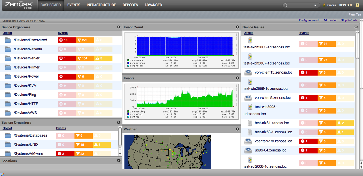 Screen capture of the Zenoss Core Dashboard by the Zenoss Core team